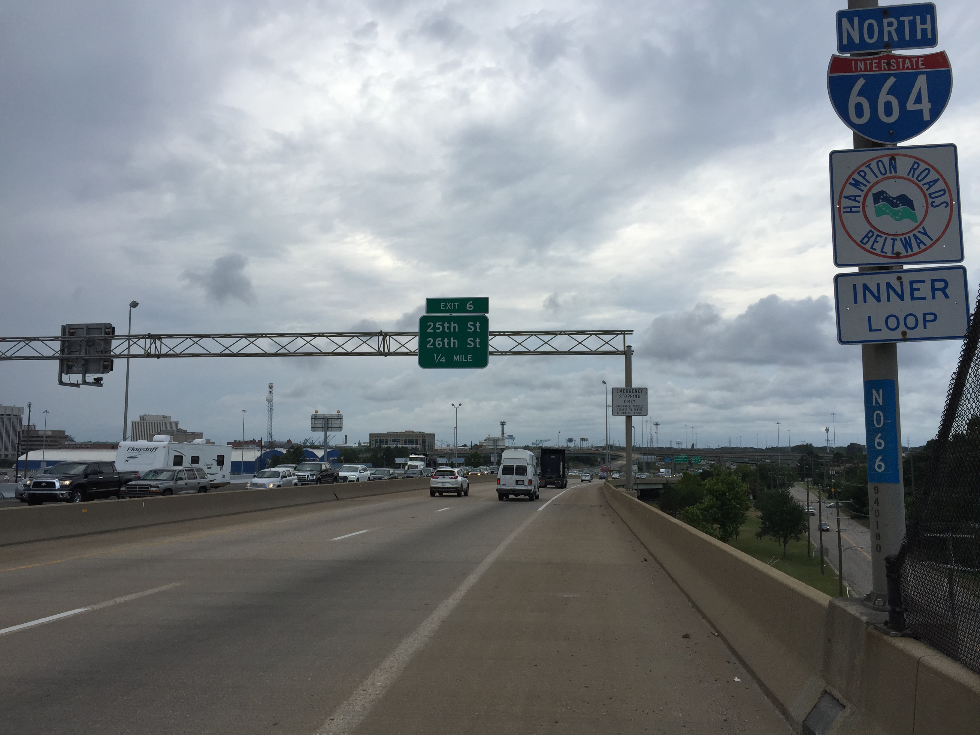 View north along Interstate 664 (Hampton Roads Beltway) between Exit 7 (Terminal Avenue) and Exit 6 (25th Street, 26th Street) in Newport News, Virginia